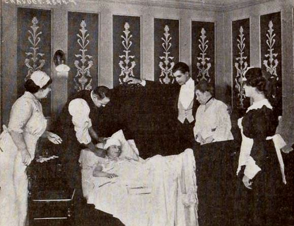 Still from the American crime drama film The Edge of the Law (1917) with Ruth Stonehouse in bed and, at right, Lloyd Whitlock and Lydia Yeamans Titus, on page 30 of the October 6, 1917 Exhibitors Herald. The actors portraying the nurse, doctor, and maid are not identified.